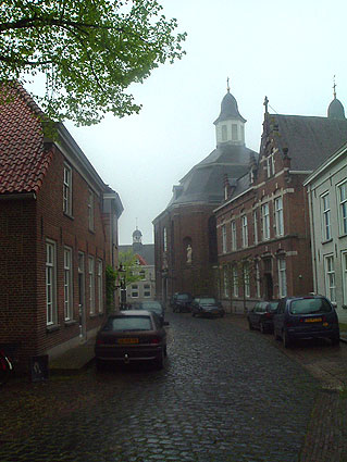 Reggie Naus, 2004